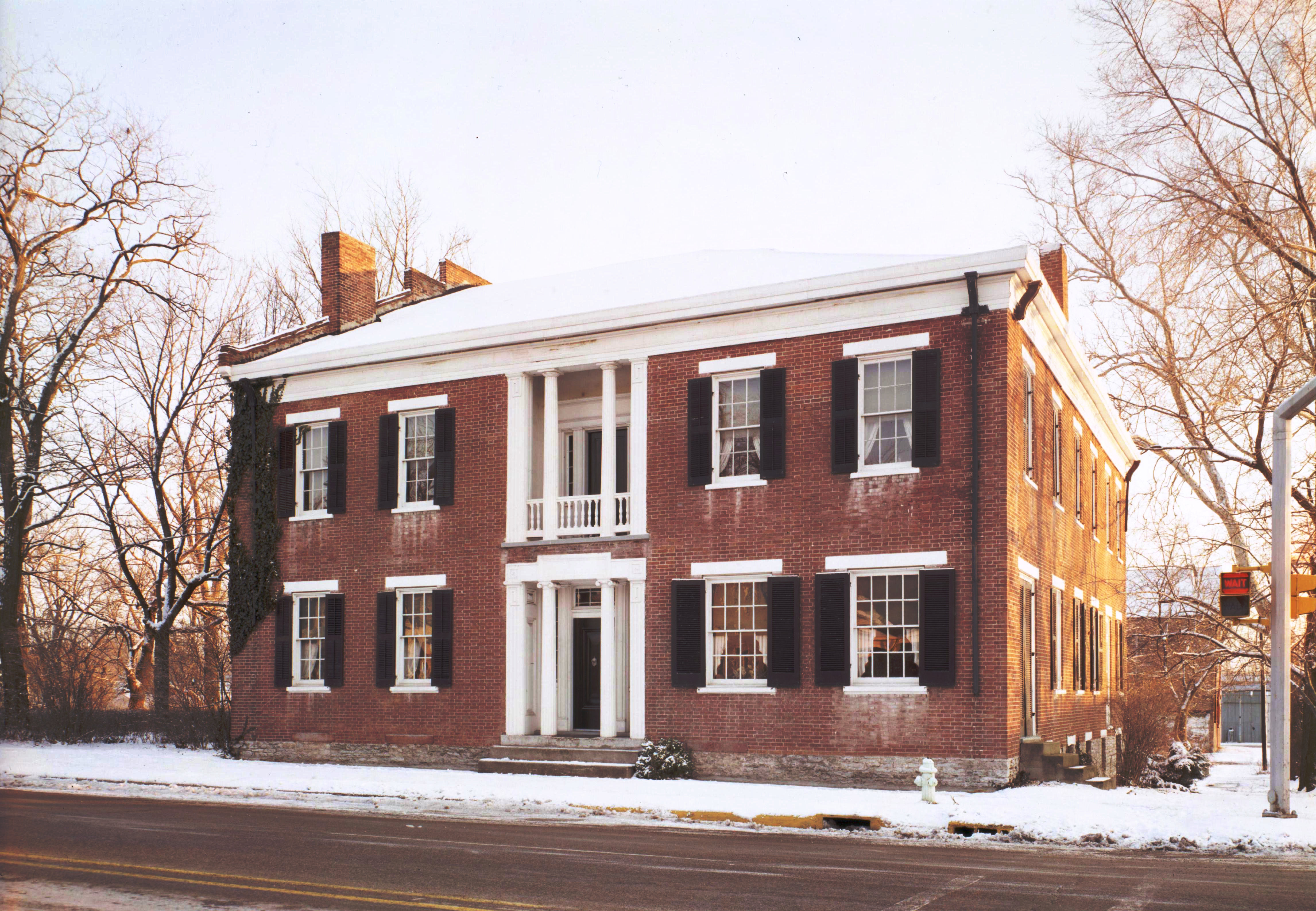 Front of the Conklin-Montgomery House, located at 302 E. Main Street (U.S. Route 40, the old National Road) in Cambridge City, Indiana, United States. Built in 1836, the house is listed on the National Register of Historic Places, and it is part of a Register-listed historic district, the Cambridge City Historic District.